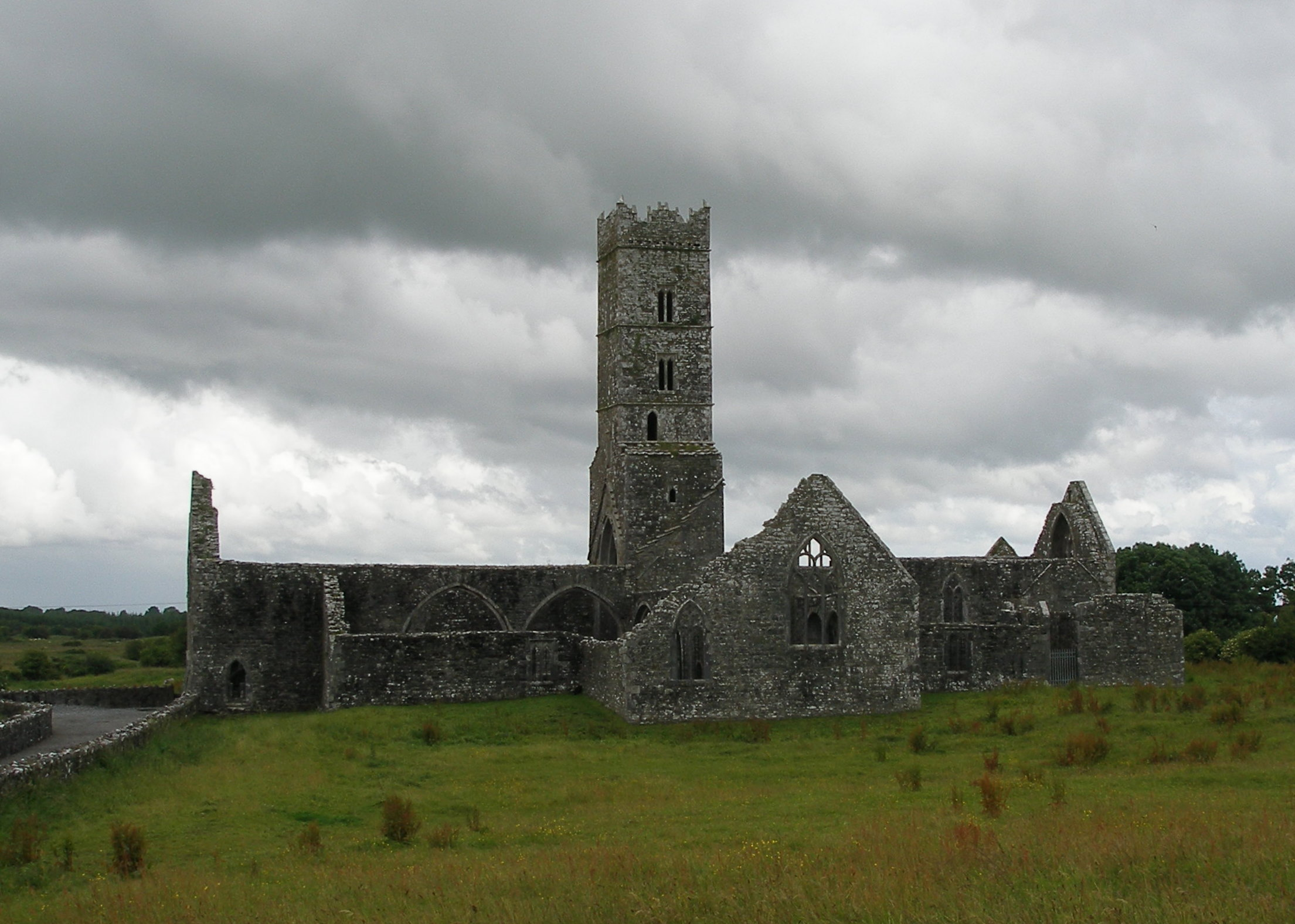 Kilconnell Friary July 2008